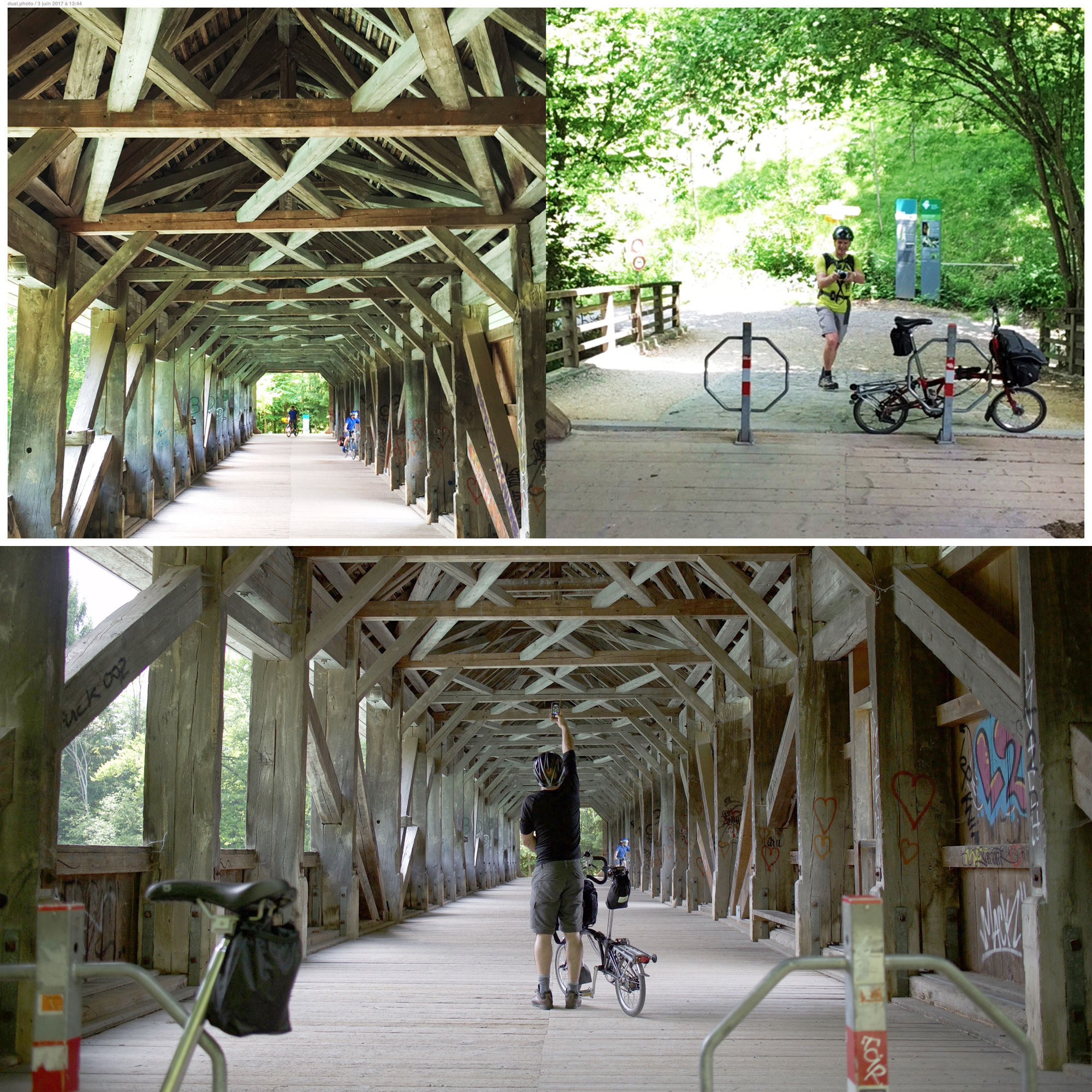 example of a dualphoto/bothie made on an iPhone and of a picture of the one taking it